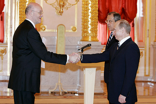 ST ALEXANDER HALL, GRAND KREMLIN PALACE. Ceremony for the presentation by foreign ambassadors of their letters of credentials. Ambassador of the Republic of Uruguay Jorge Alberto Meier Long presents his letter of credentials. In the background is Russian Foreign Minister Sergei Lavrov.